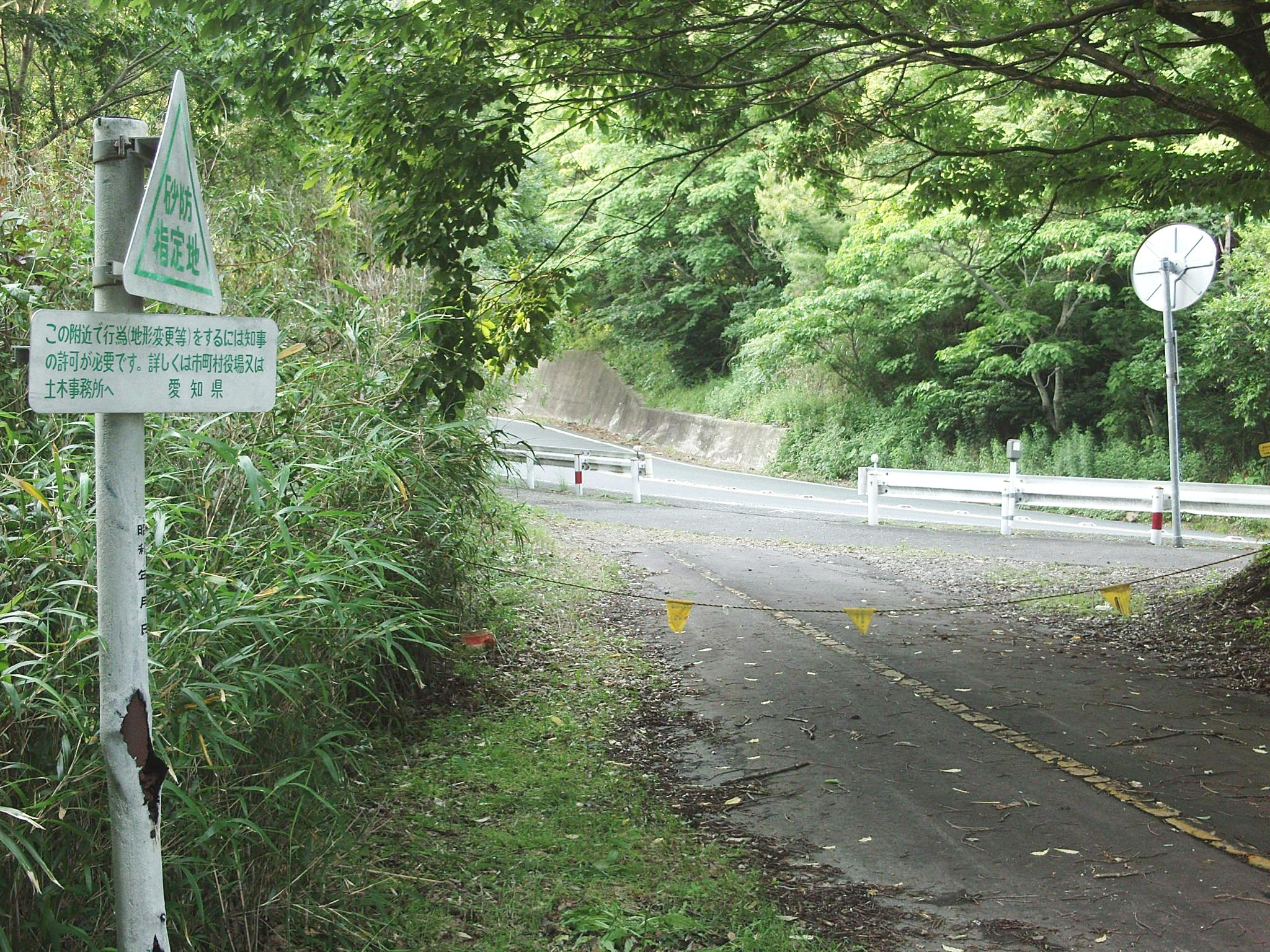 Aichi prefectural road No.323 in Sakano, Kashiwabaracho, Gamagori, Aichi. This place is abolition road zone.